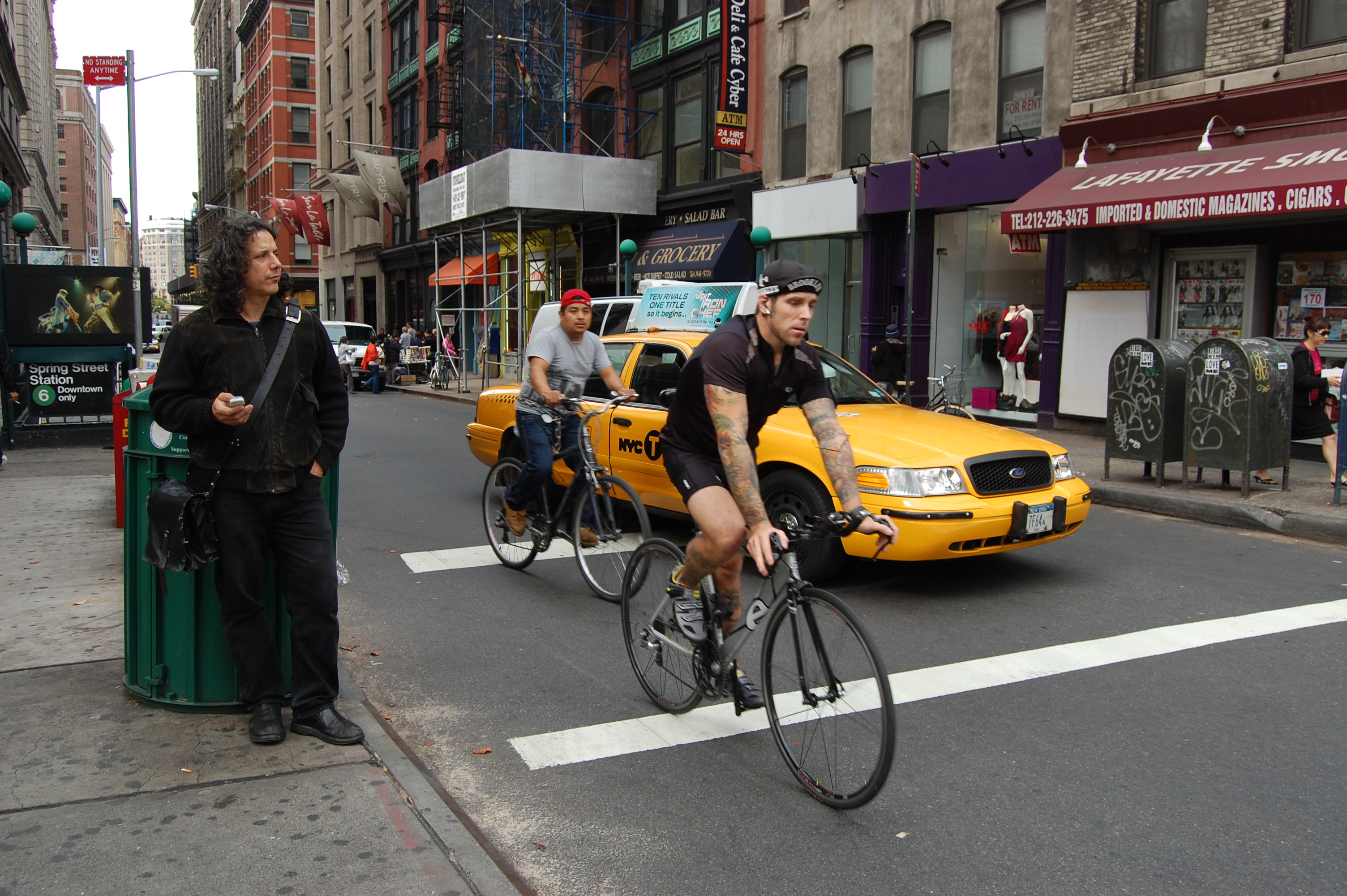 Biking: Inspirational in New York City